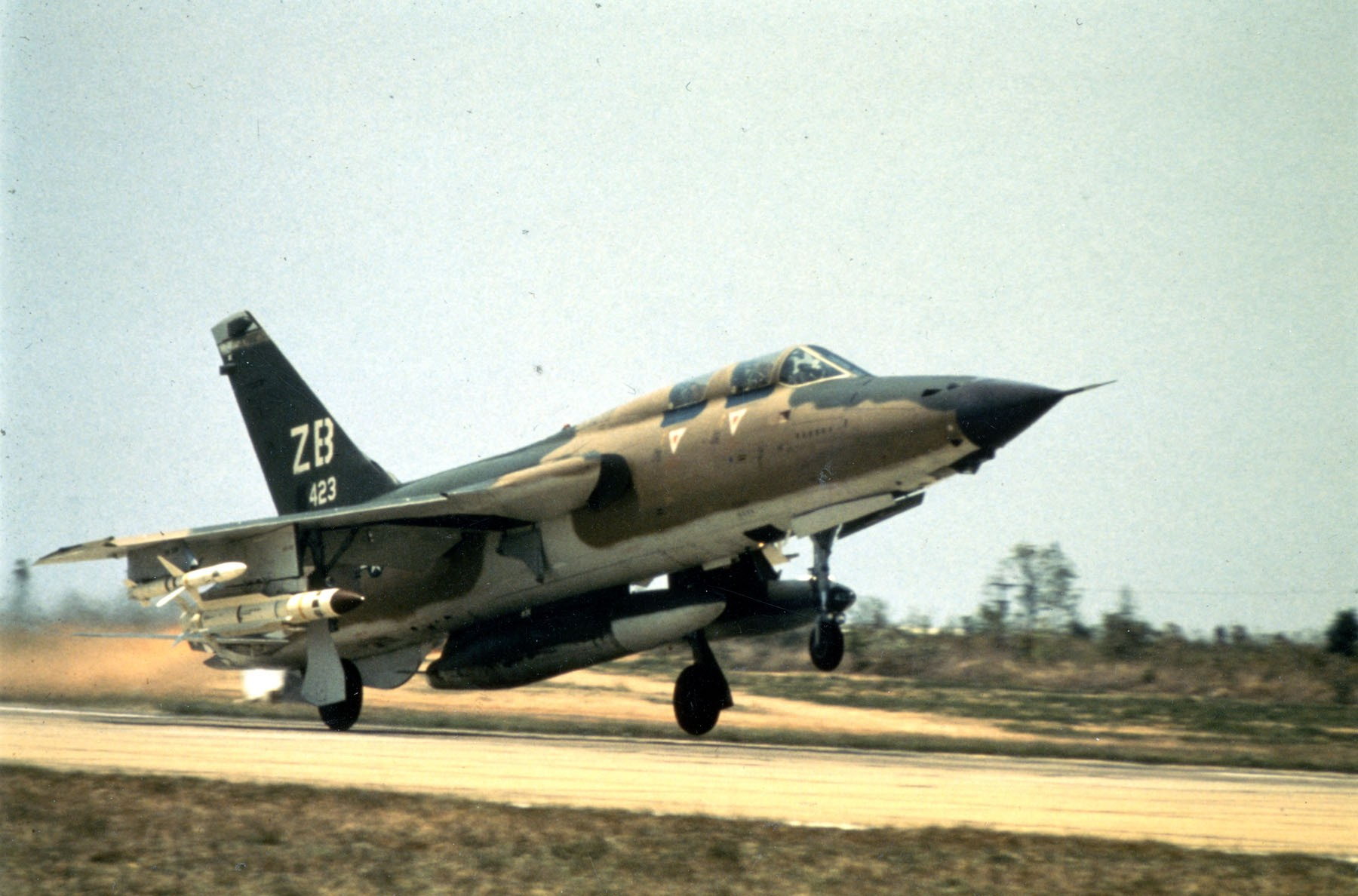 A U.S. Air Force F-105G Thunderchief aircraft (s/n 62-4423) of the 6010th Wild Weasel Squadron (redesignated 17th Tactical Fighter Squadron, 1 December 1971), 388th Tactical Fighter Wing taking off from Korat Royal Thai Air Force Base in 1971. It is armed with AGM-45 Shrike and AGM-78 Standard anti-radiation missiles.